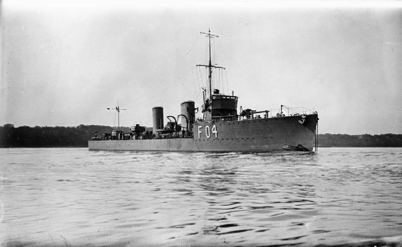 Photograph of British Yarrow M class destroyer HMS Nerissa.